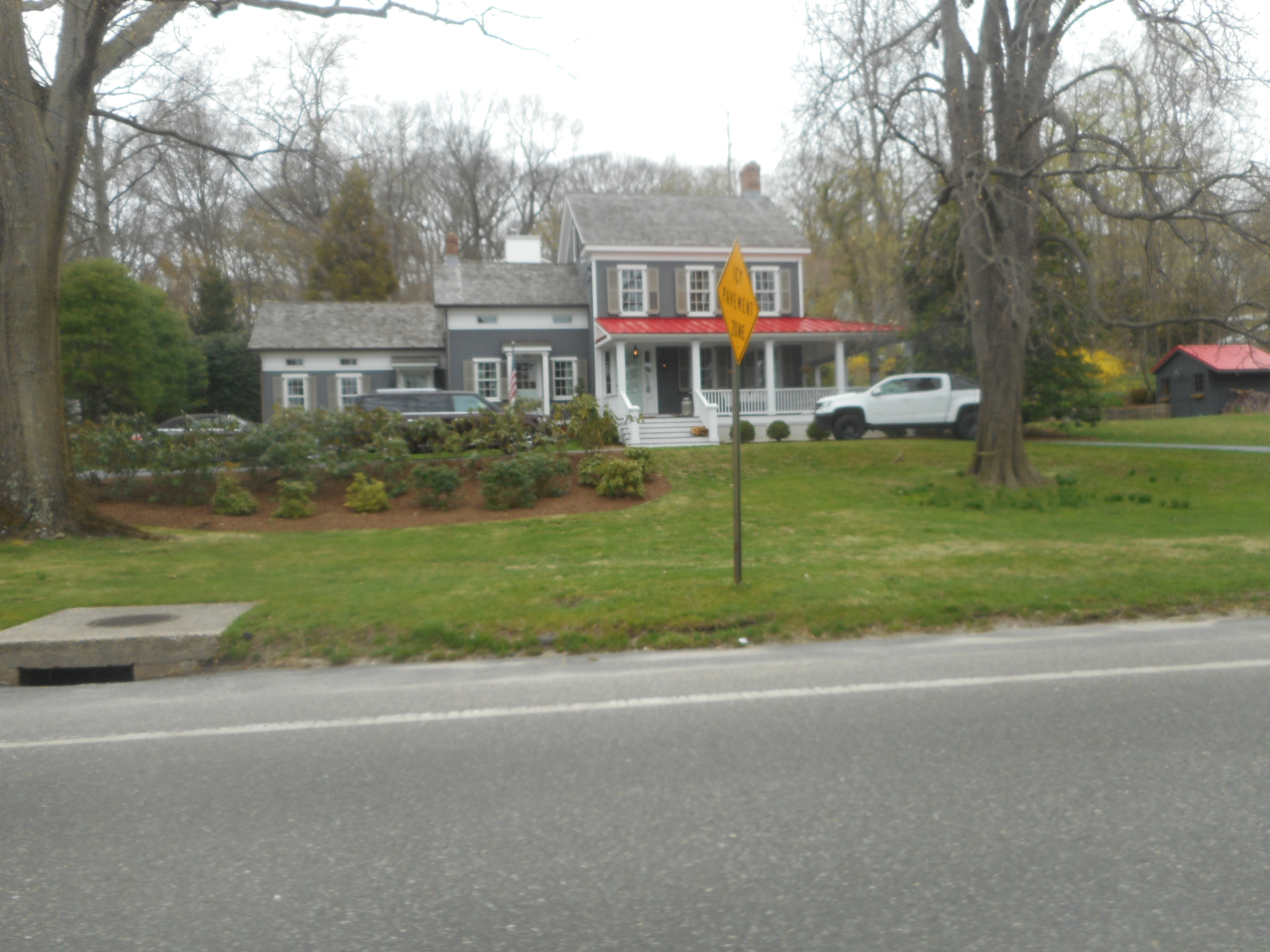 The NRHP-listed Daniel Smith House at 117 West Shore Road in Huntington, New York.